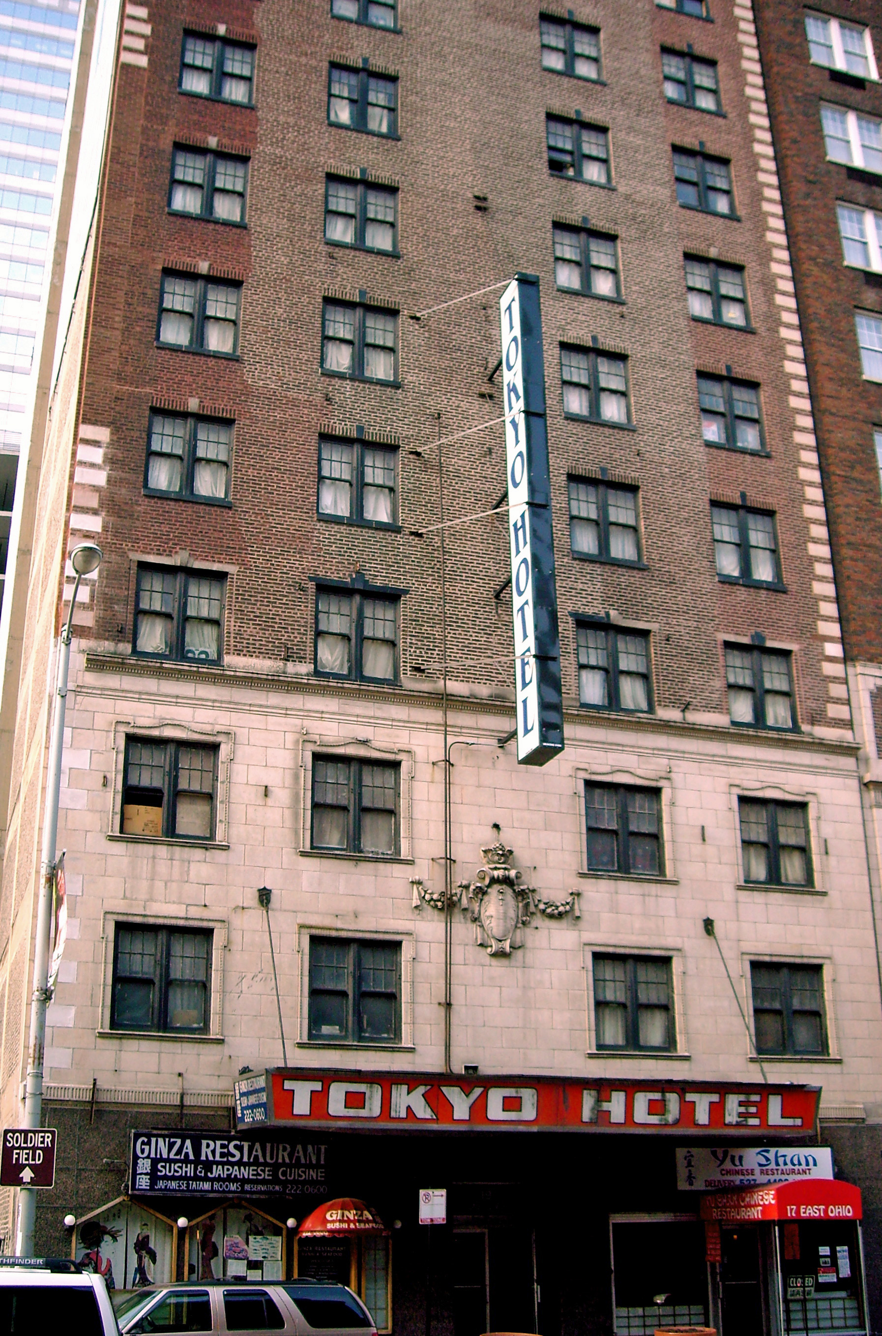 Tokyo Hotel, Chicago, Illinois, May 23, 2007. Photograph taken and contributed by John Dorsey